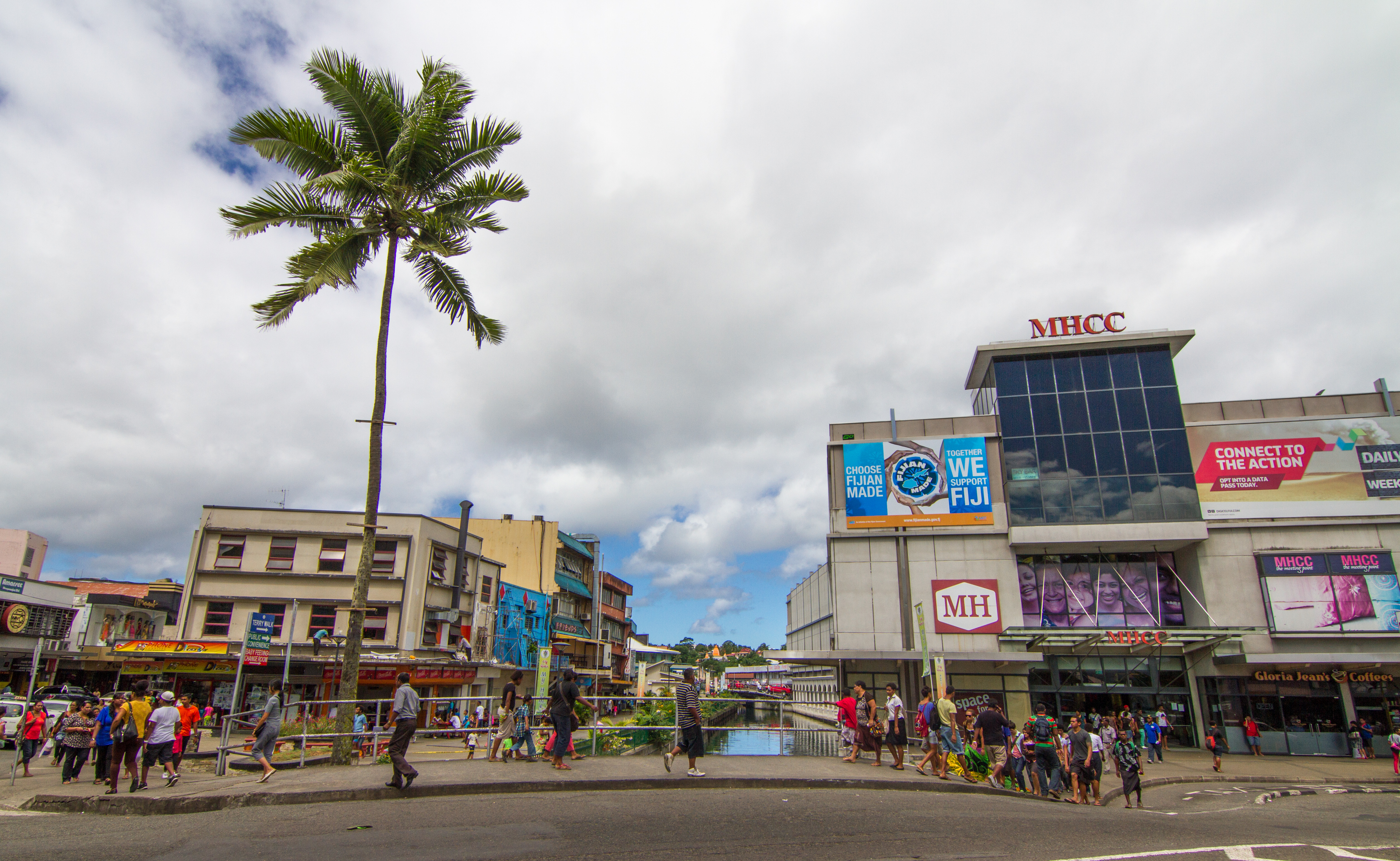 Suva, Fiji